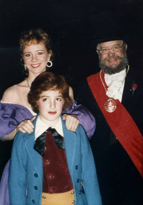 Jessica Hollyfield, Andrew Parodi, and Mayor Bud Clark in a Holiday function at Keller Auditorium in Portland, Oregon